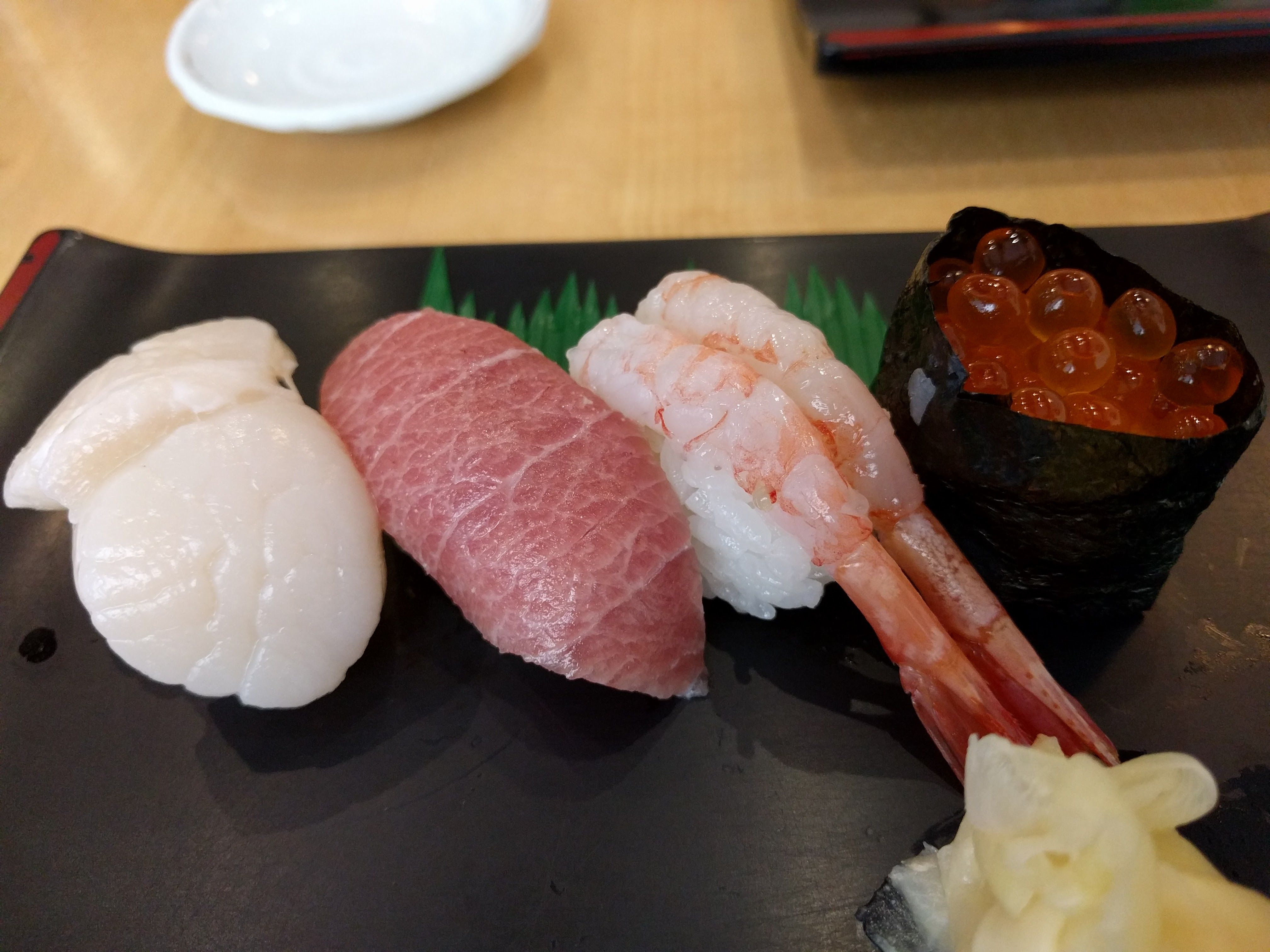 Hotategai, Maguro-Toro, Ama Ebi and Ikura Sushi